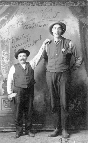 Anders Gustav Anderson, known as Big Gust (1872-1926). Famous Tall man. Emigrated from Sweden to USA 1892.